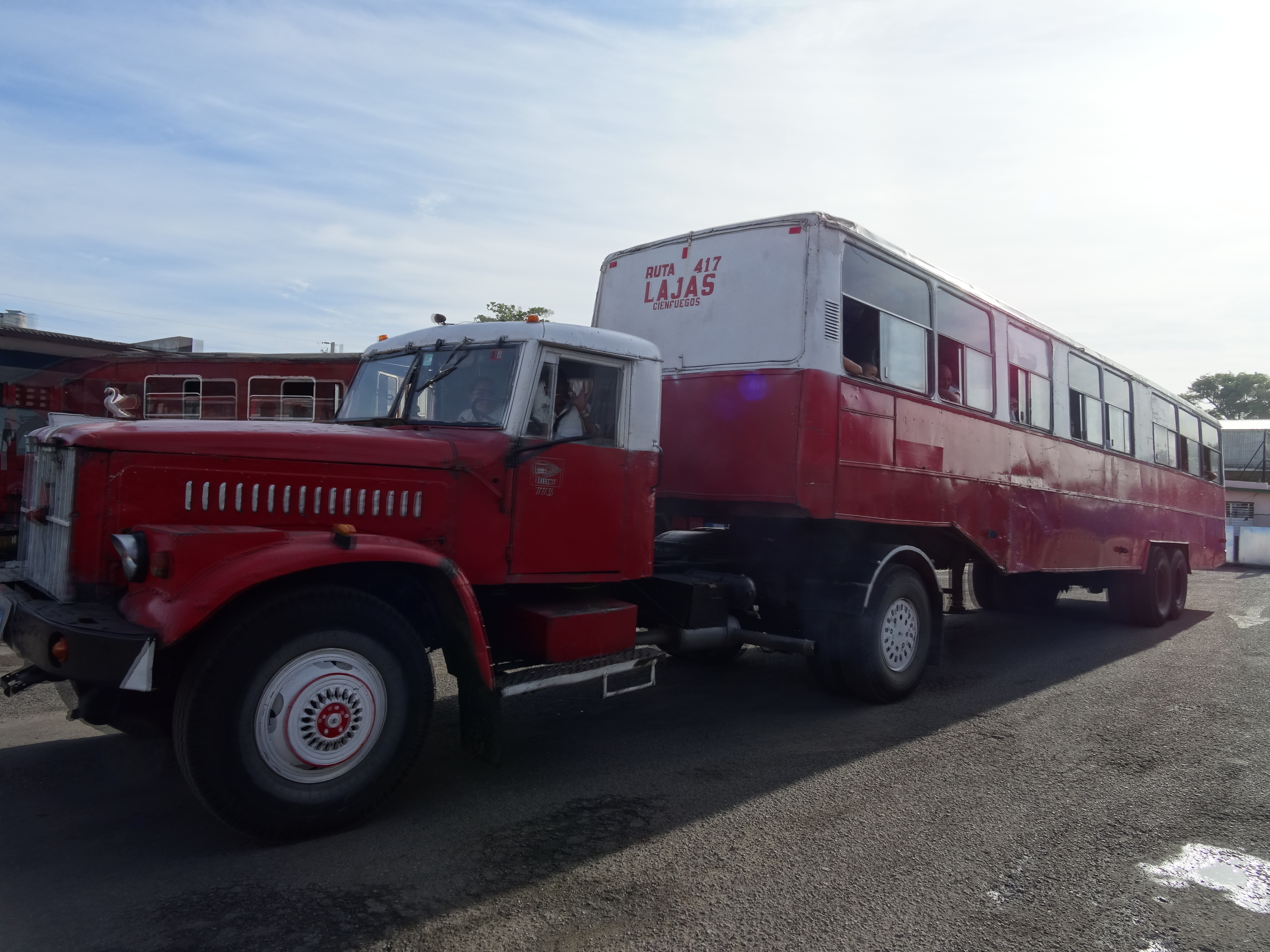 KrAZ-258 with semi trailer bus Girón, Santiago de Cuba